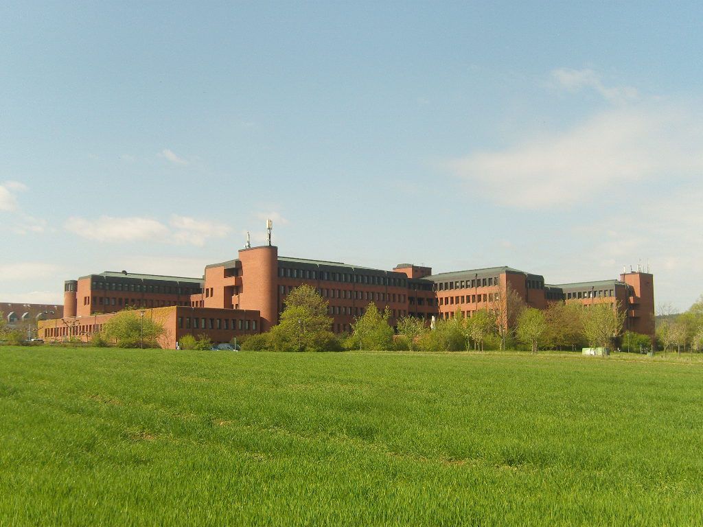 county administration building in Hofheim